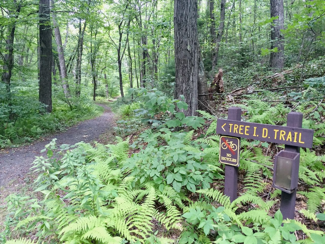 Sessions Woods Wildlife Management Tree ID Trail